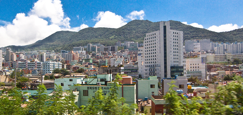 Sasang District in Busan, South Korea. Part of photograph from Flickr; author Valentina Yachichurova; license of CC BY-SA 2.0. This is a part of the original photo, plus additional edits (lighting, cropping, etc.).